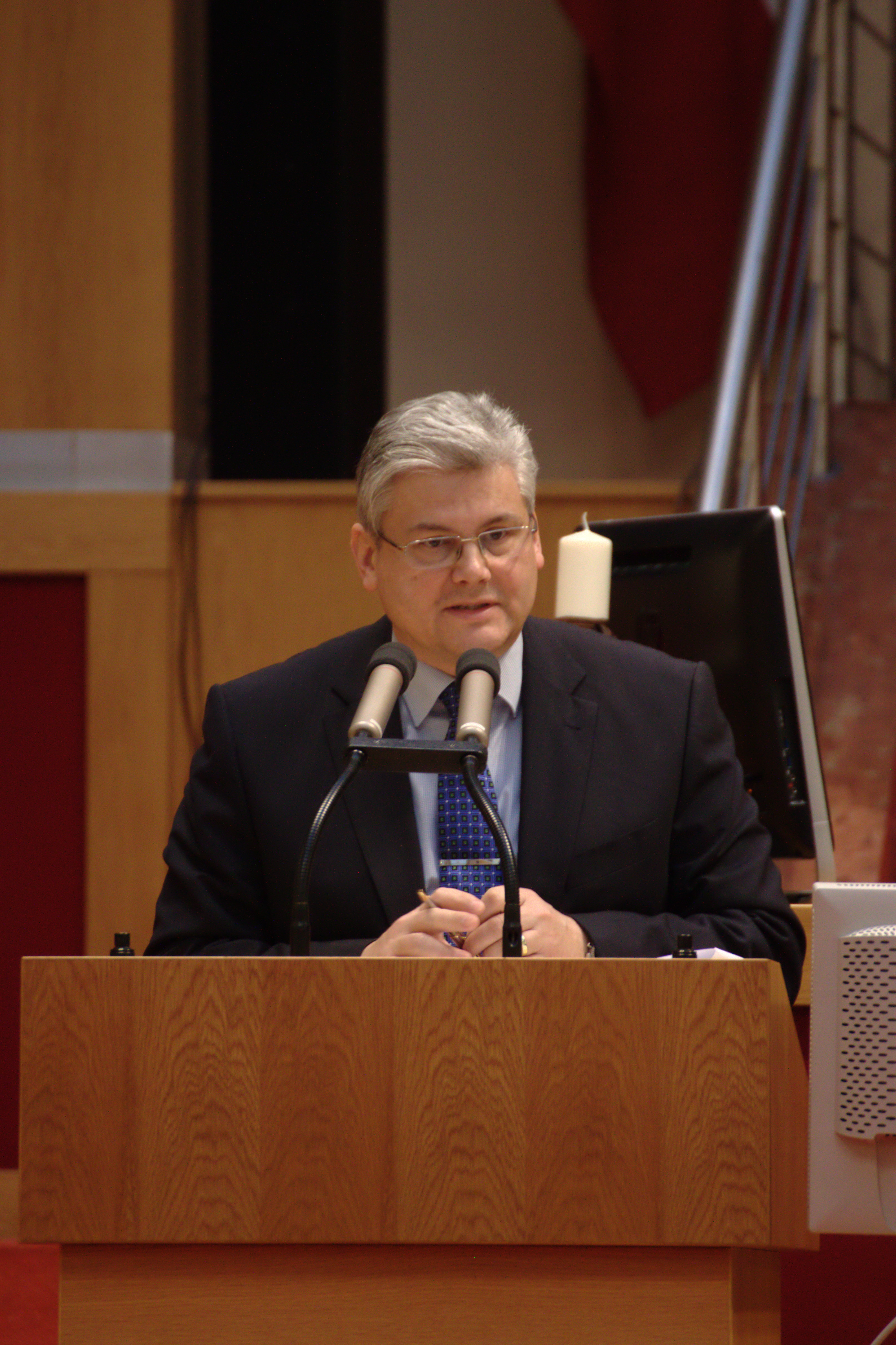 ČSSD (Social democrats) Prague politician Miloslav Ludvík during the 2nd session of the City council of Prague, December 2014